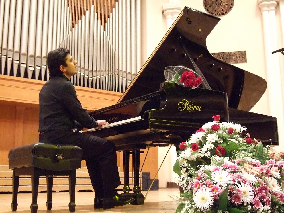 Vardan Mamikonyan, classical pianist, performing at Aram Khachaturyan Concert Hall in Yerevan, Armenia